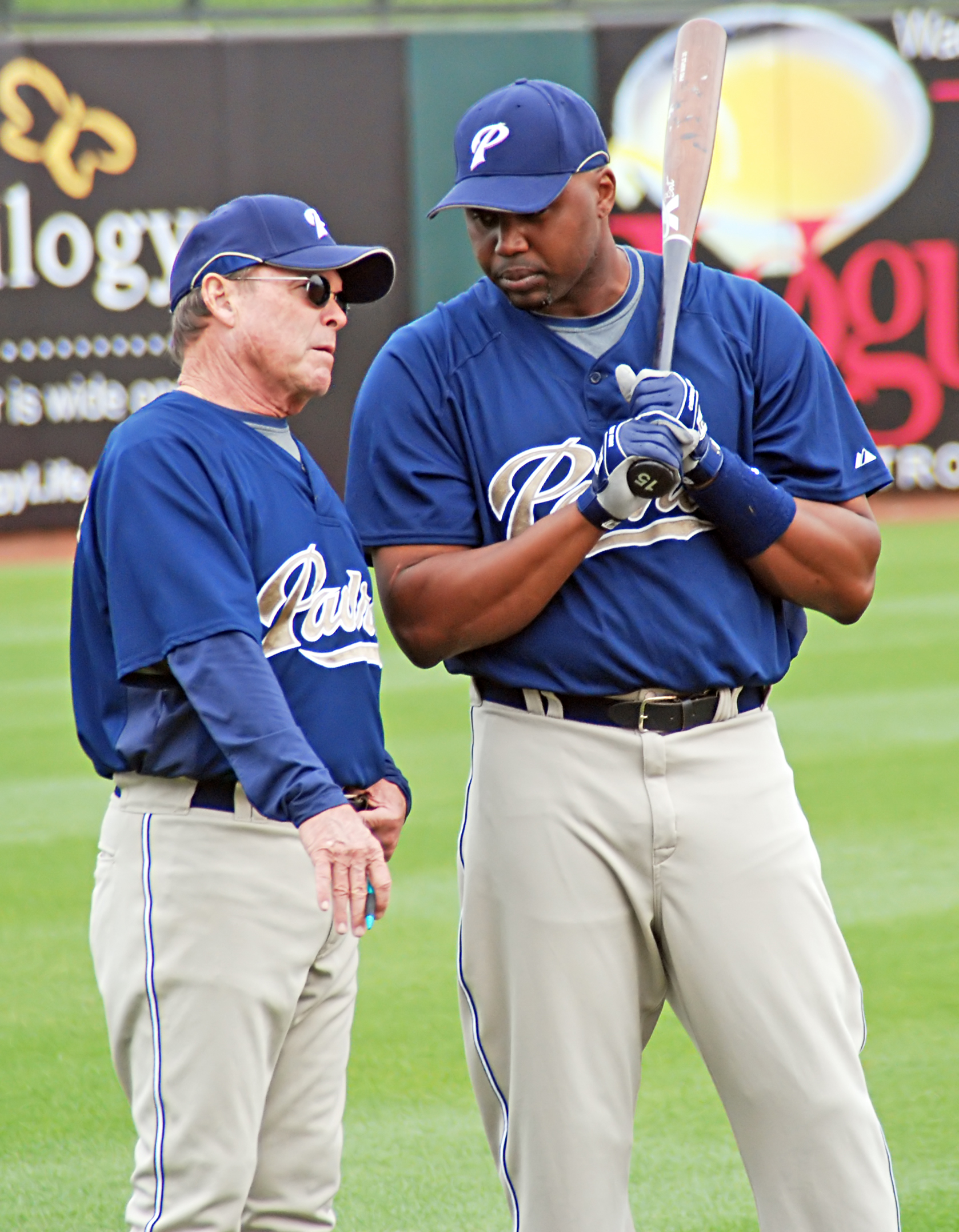 San Diego Padres outfielder Cliff Floyd and hitting coach Jim Lefebvre prior to a spring training game on 03/05/2009 in Surprise, Arizona